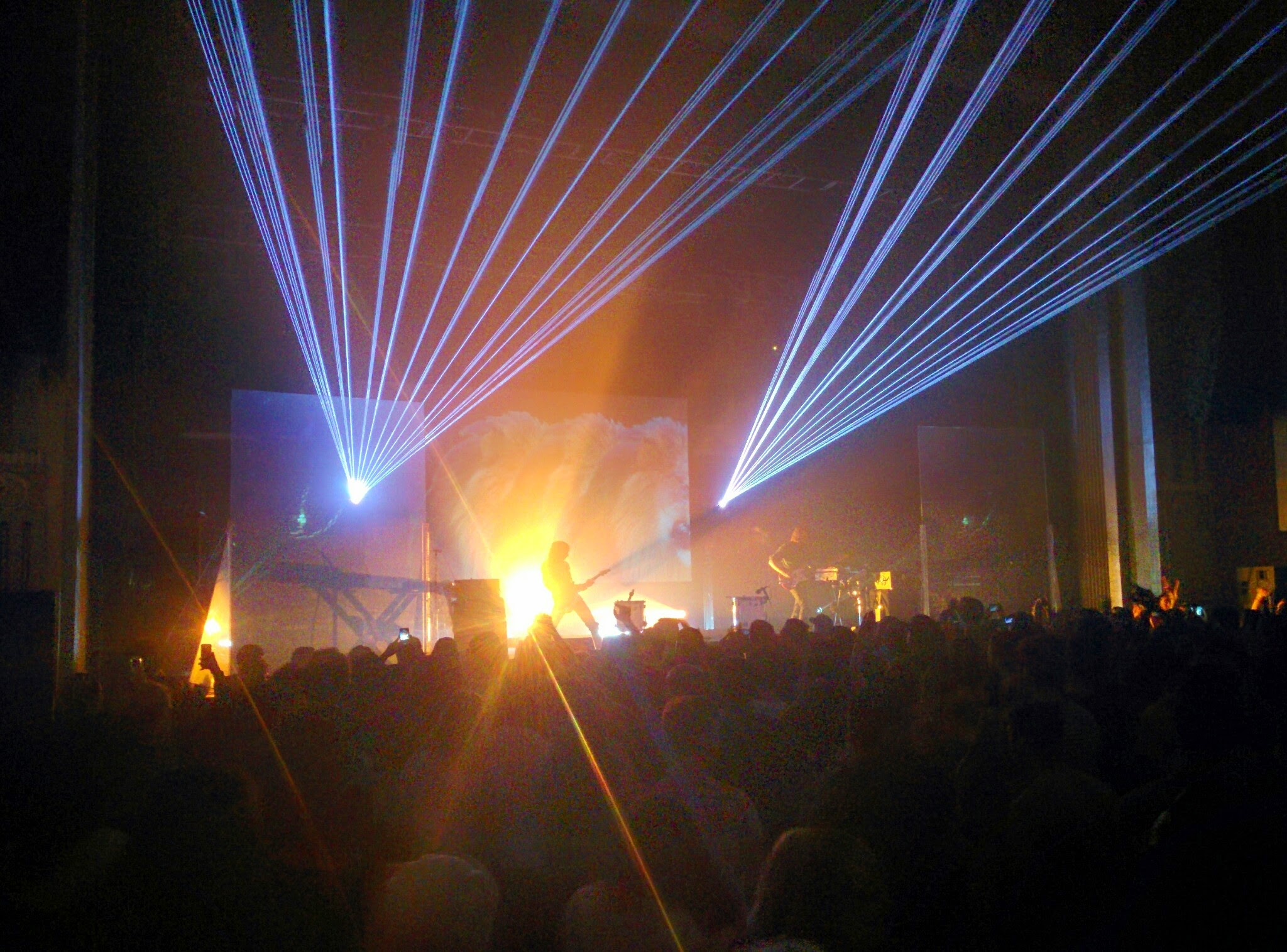 Ratatat performing at Pomona Fox Theater, illustrating the laser light show included in the performance.